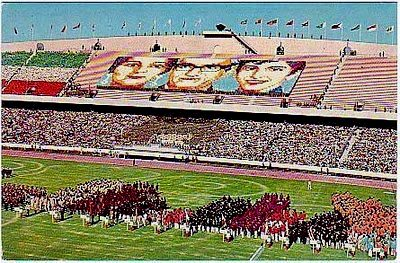 1974 Asian Game inauguration in Aryamehr (Azadi) Stadium, Tehran